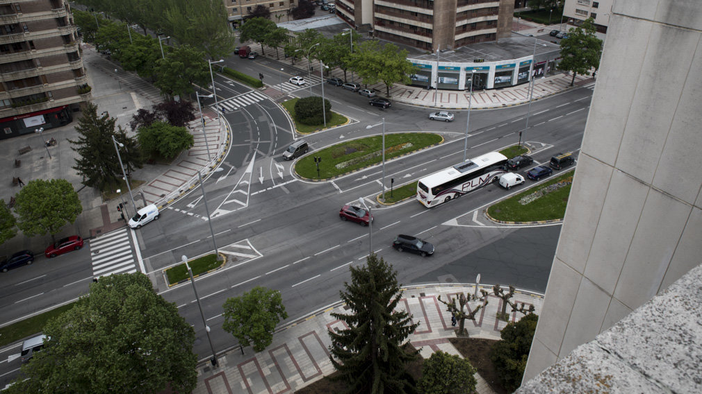 Año 2011